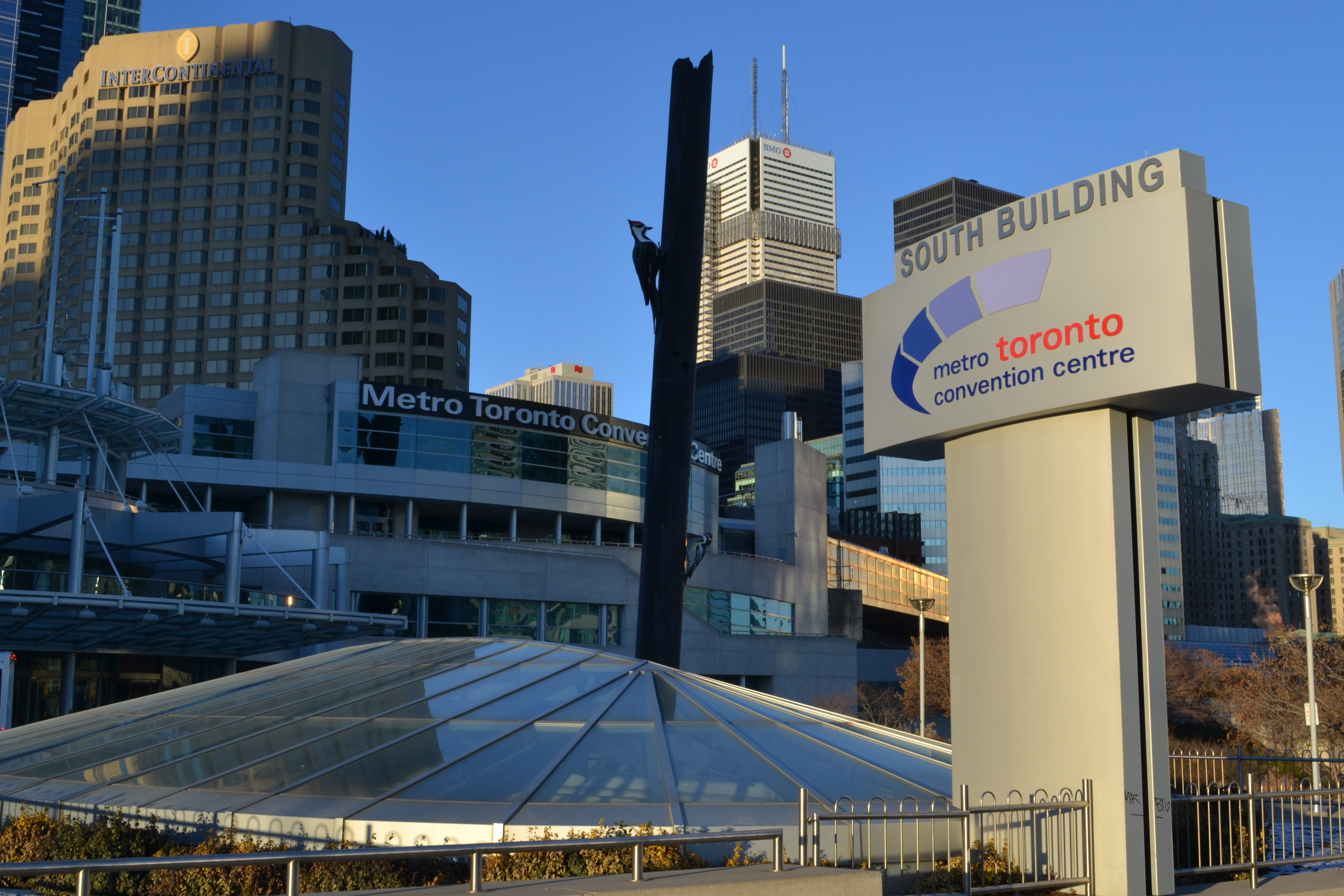 Metro Toronto Convention Centre